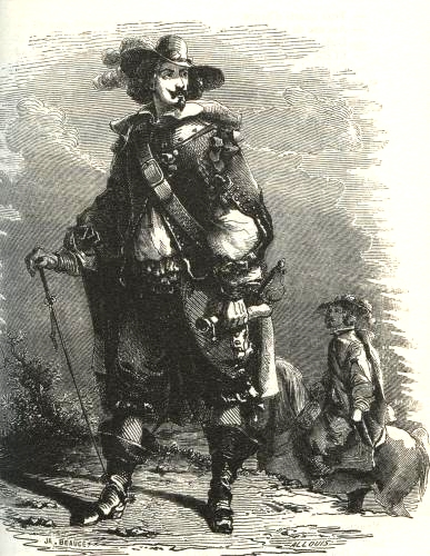 Count de Rochefort. An illustration to The Three Musketeers XIX cent. edition.